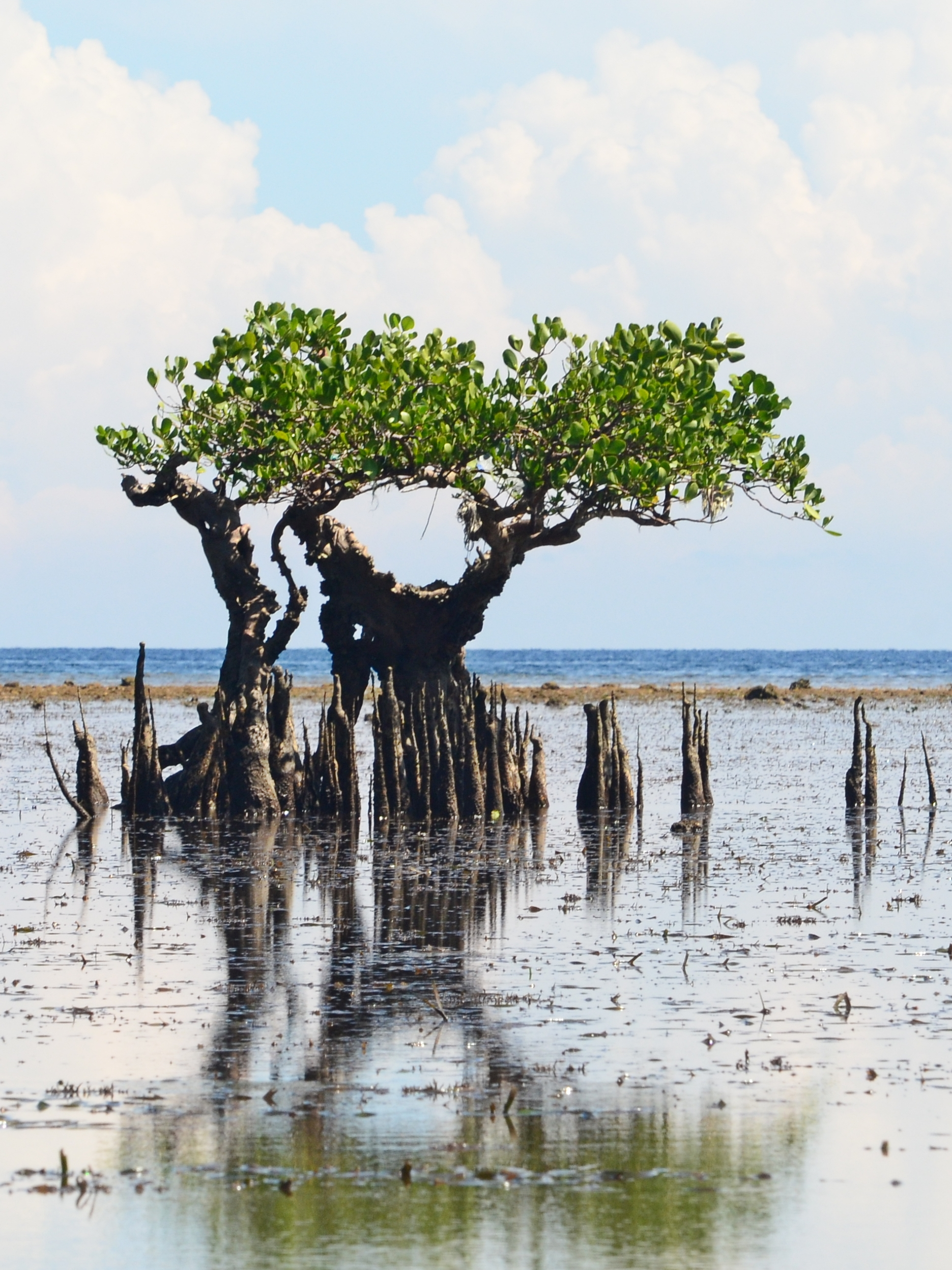 Sonneratia alba tree at Bahowo Swamp, Manado, North SulawesiBahasa Indonesia: Sonneratia alba di Rawa Pantai Bahowo, Manado, North Sulawesi.